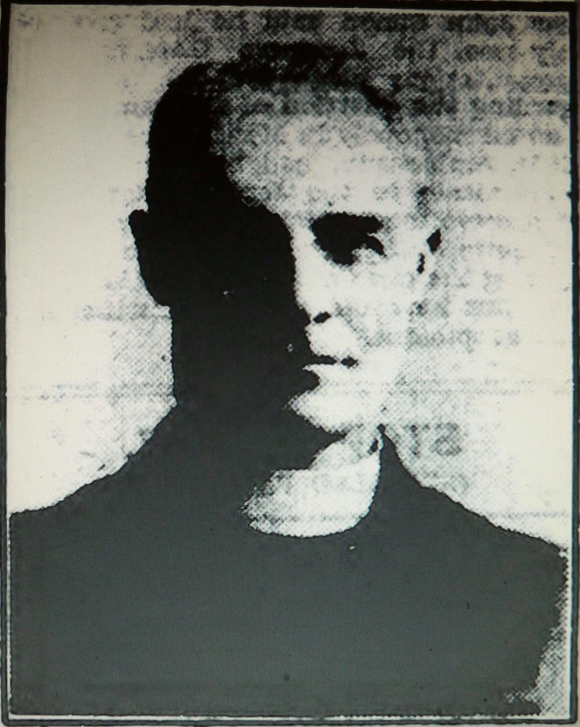 Reverend Joseph Miller BD, who was vicar of the church of St Mark, Old Leeds Road, Huddersfield, West Yorkshire, England, from 1929 to 1931. He was formerly a Congregationalist minister who converted to Anglicanism shortly before taking up the living at St Mark's. [Note re picture quality: From the technical point of view, this is an inadequate microfilm picture which needs to be replaced, when possible, with a direct photograph of the original newspaper. However it so happens that on this occasion, the microfilm has produced a striking image of this man: a hero who assisted refugees in Germany in World War I, and who was apparently a fine preacher. So if you upload a technically better version of this image, please upload it to a separate file, and pleas link the new file in the "other versions" section below. Thank you. Storye book (talk) 10:37, 16 October 2016 (UTC) ]